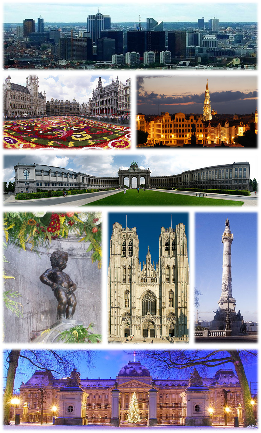 Collage of Brussels.